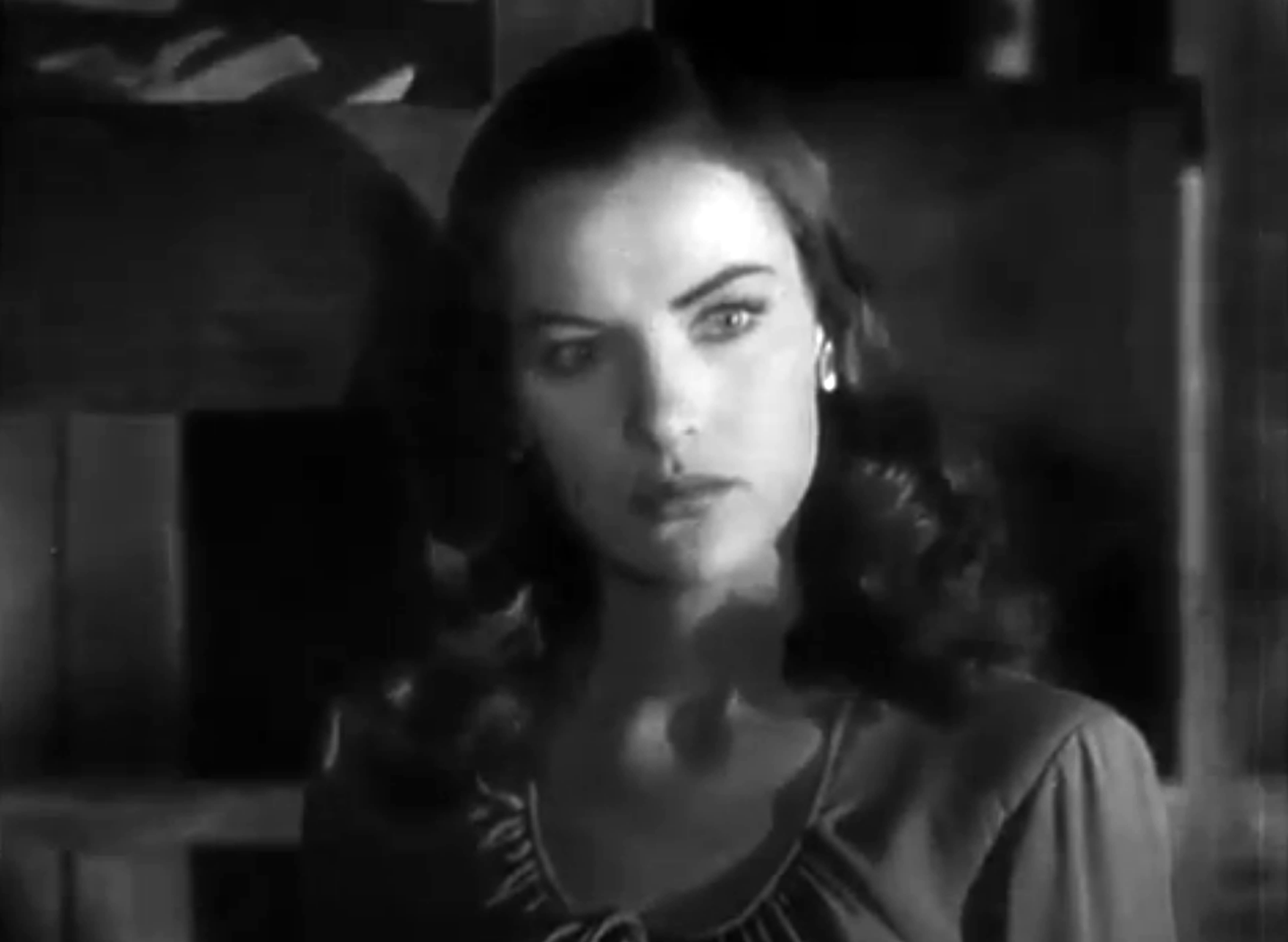 Ella Raines in Tall in the Saddle Trailer